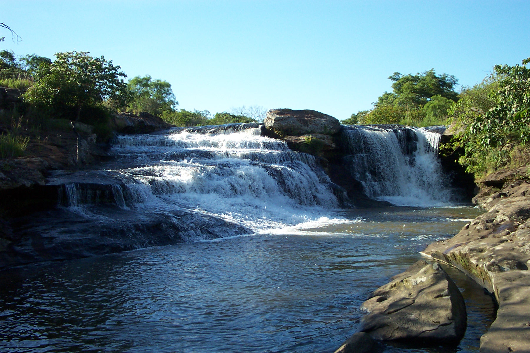 waterfall Pirareta